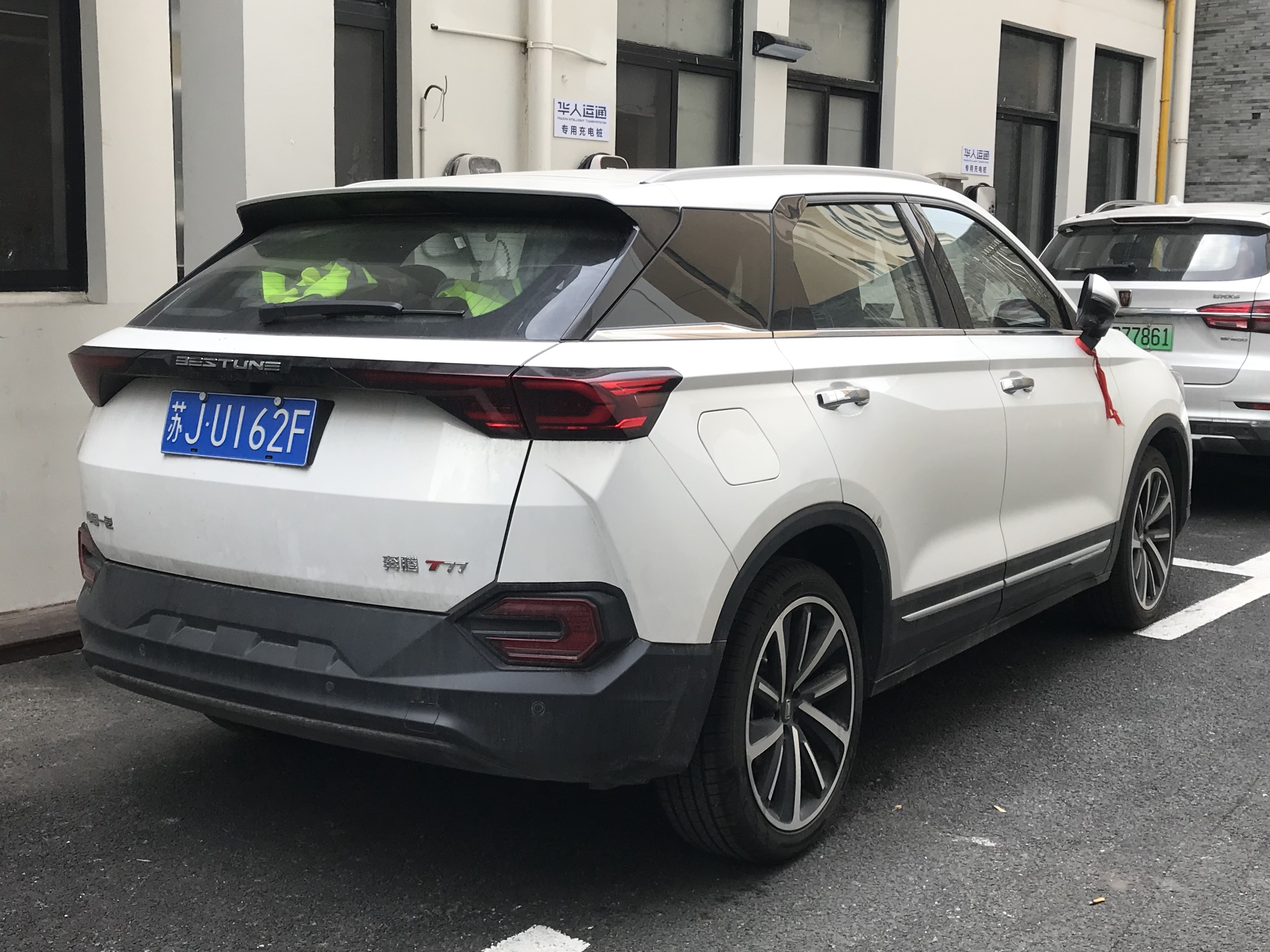 Bestune (Besturn) T77 rear